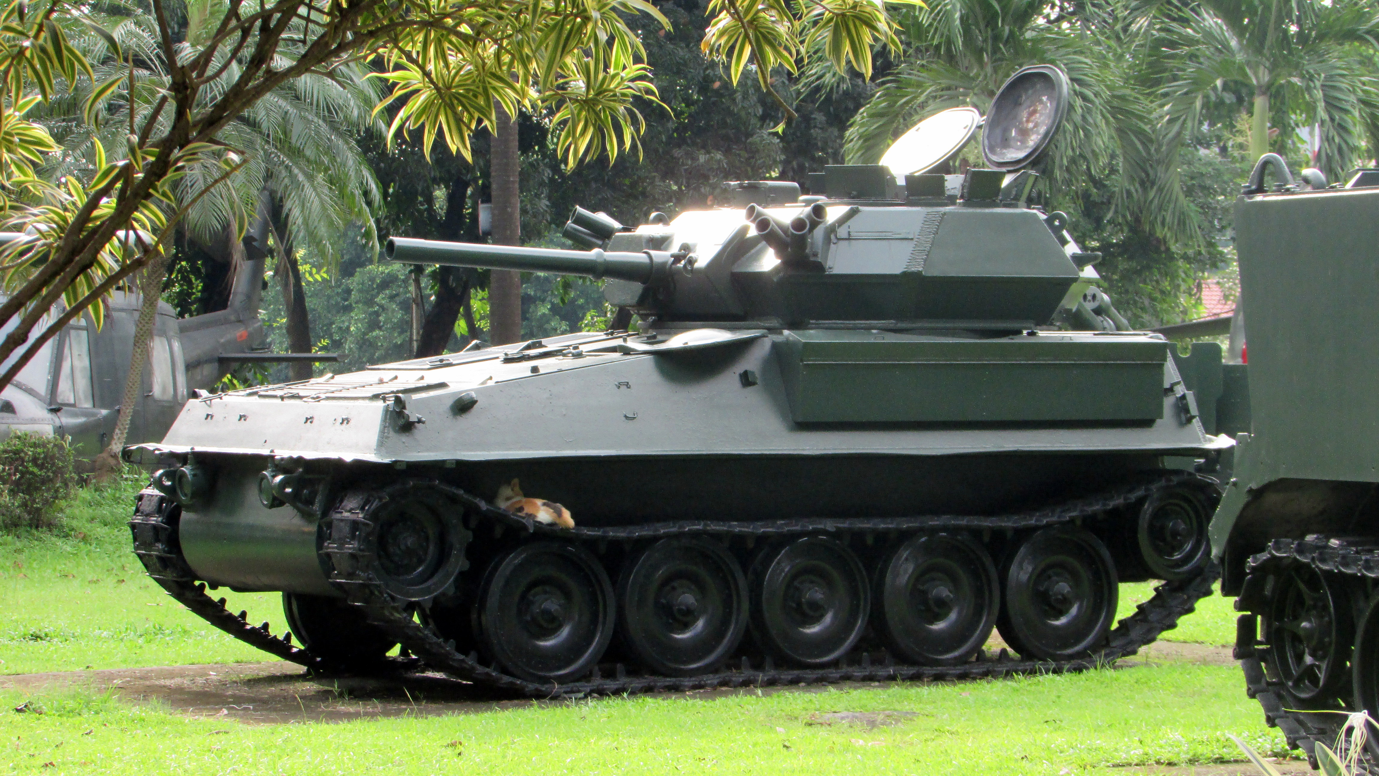 Side view of an FV101 Scorpion Light Tank of the Philippine Army. Photo taken at the Armed Forces of the Philippines Museum in Camp Aguinaldo.